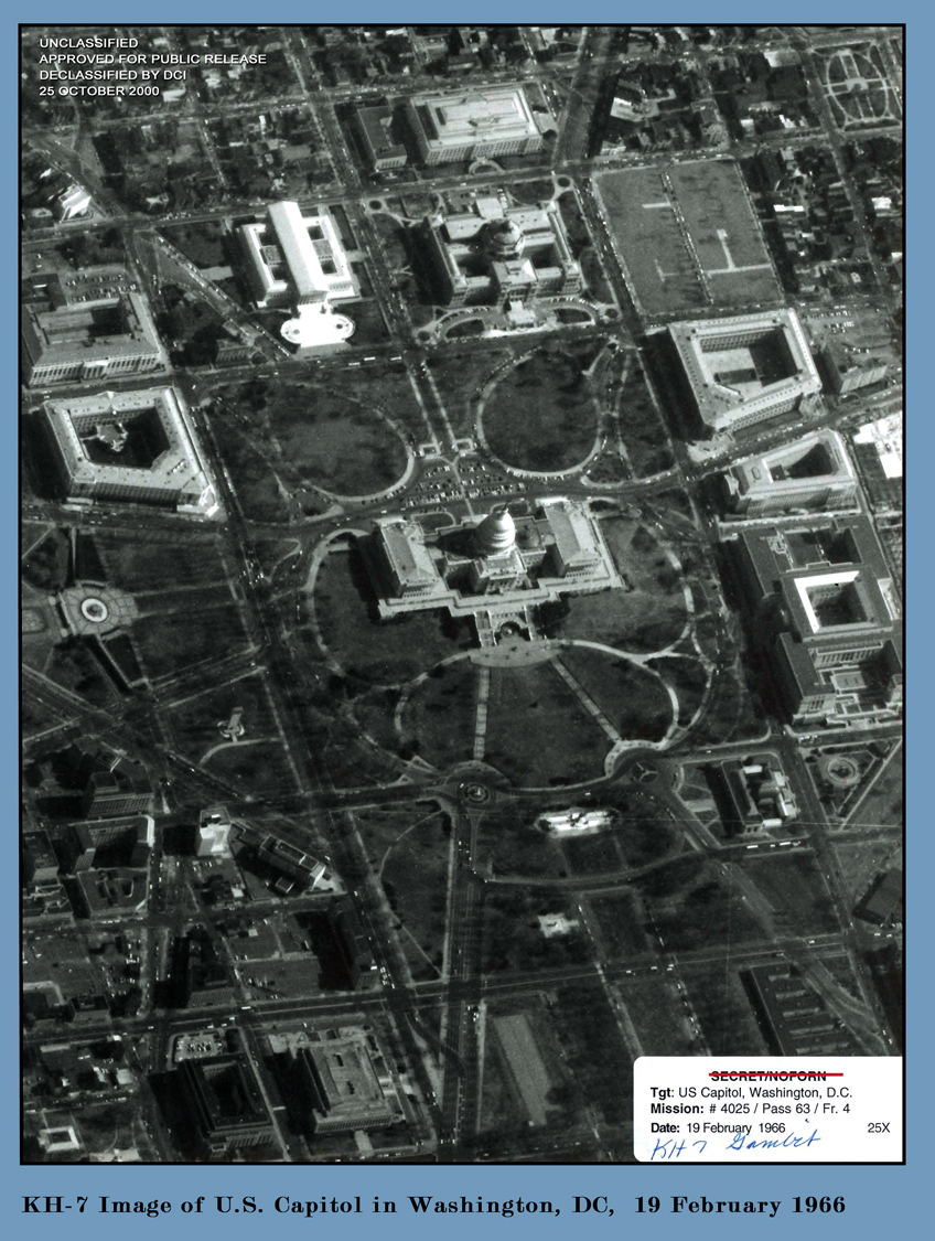 United States Capitol photographed by satellite KH-7 25, 19th of February 1966.